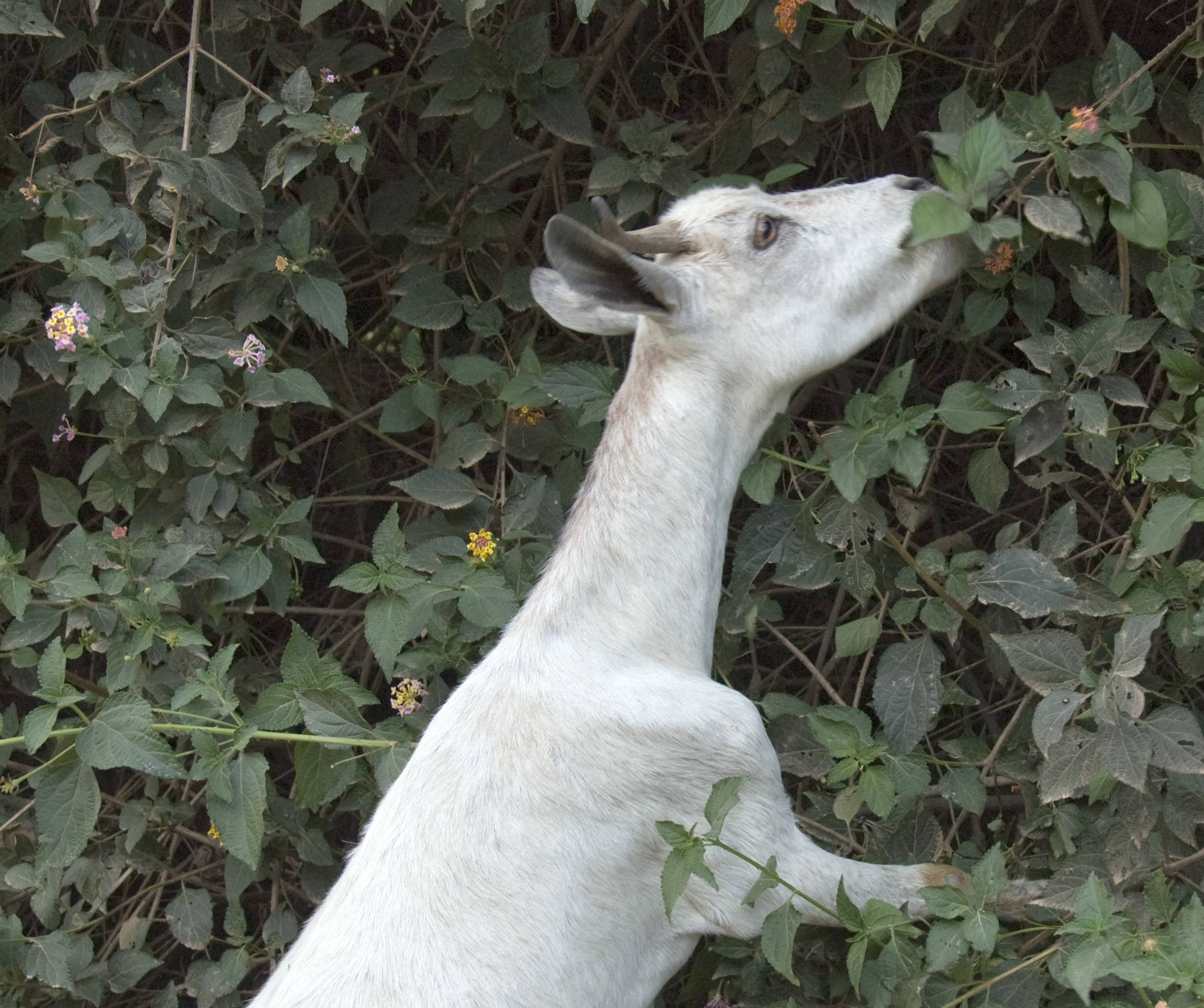 Reaching for lantana leaves, Harar, Ethiopia.